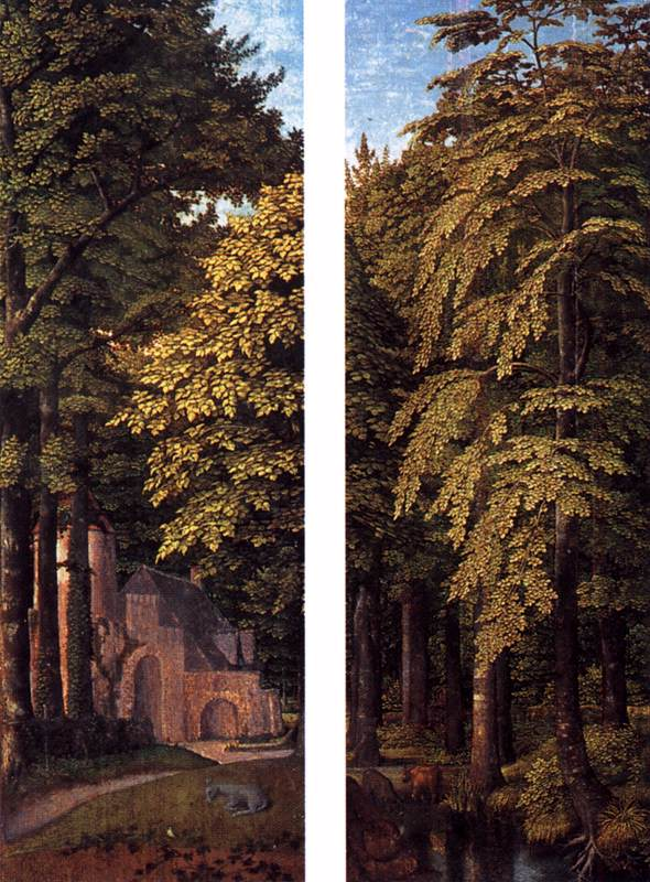 Outer wings of a triptych depicting the Nativity, the inner wings and central panel are now in the Metropolitan Museum of Art in New York (see File:David Triptych with the Nativity.jpg).